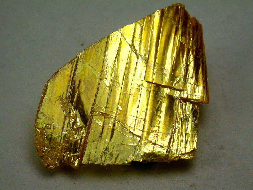 Orpiment Locality: Senduchen occurrence, Men-Kyule River, Verkhoyansk Range, Lena River Basin, Bulun District, Polar Yakutia, Sakha Republic (Saha Republic; Yakutia), Eastern-Siberian Region, Russia Dimensions: 25 mm x 24 mm x 1 mm